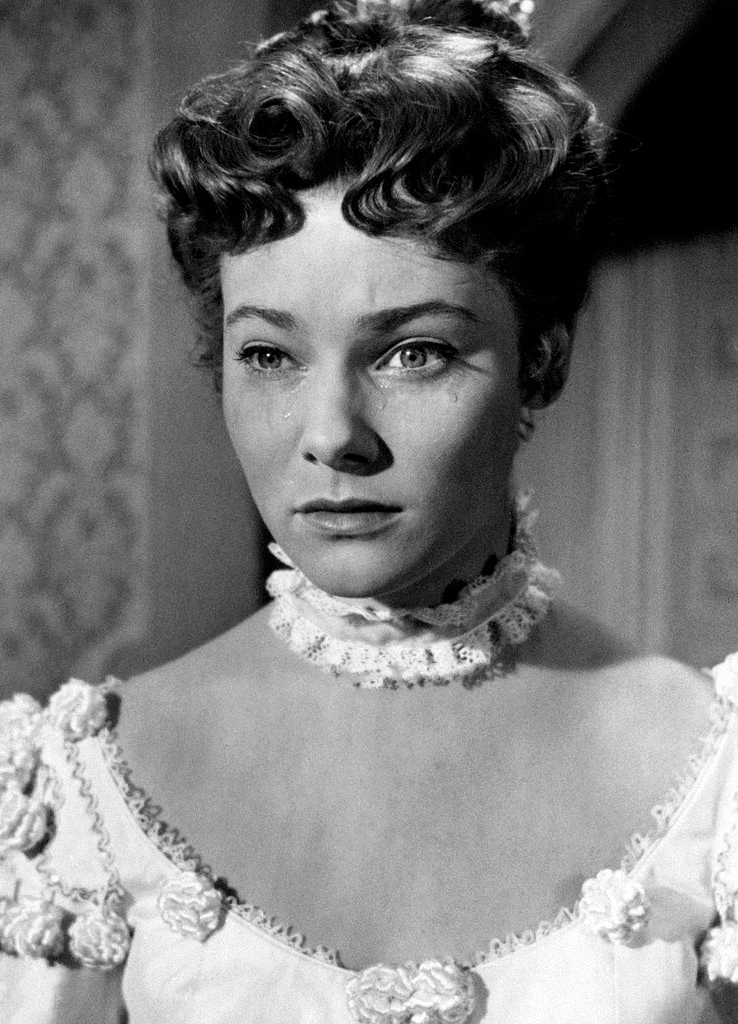 The Swedish actress May Britt, wearing the stage costume of the noblewoman Consuelo boarded on a galleon travelling to America, in a scene from the movie The Ship of Condemned Women. Italy, 1953.